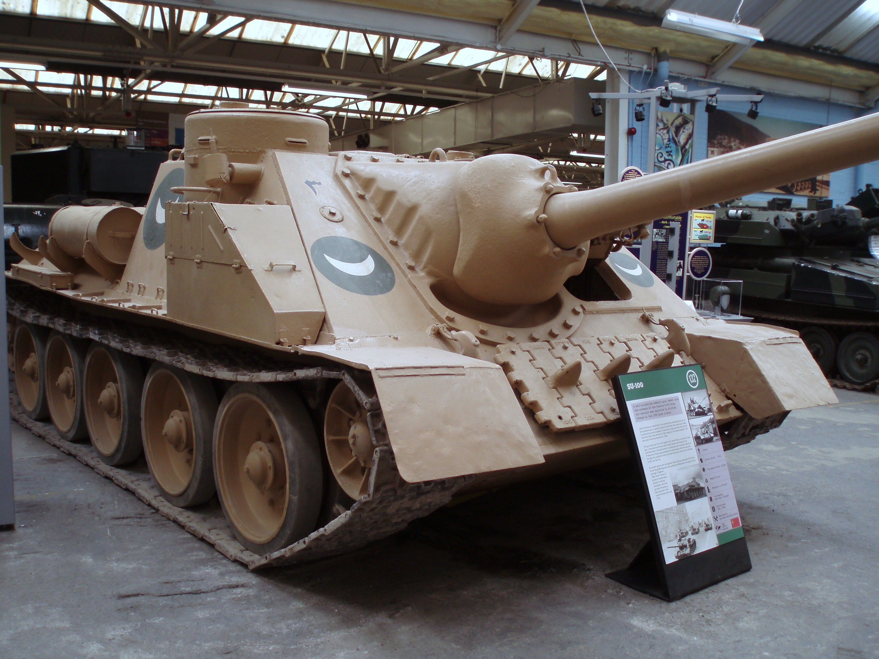 Bovington Tank Museum 327 SU-100